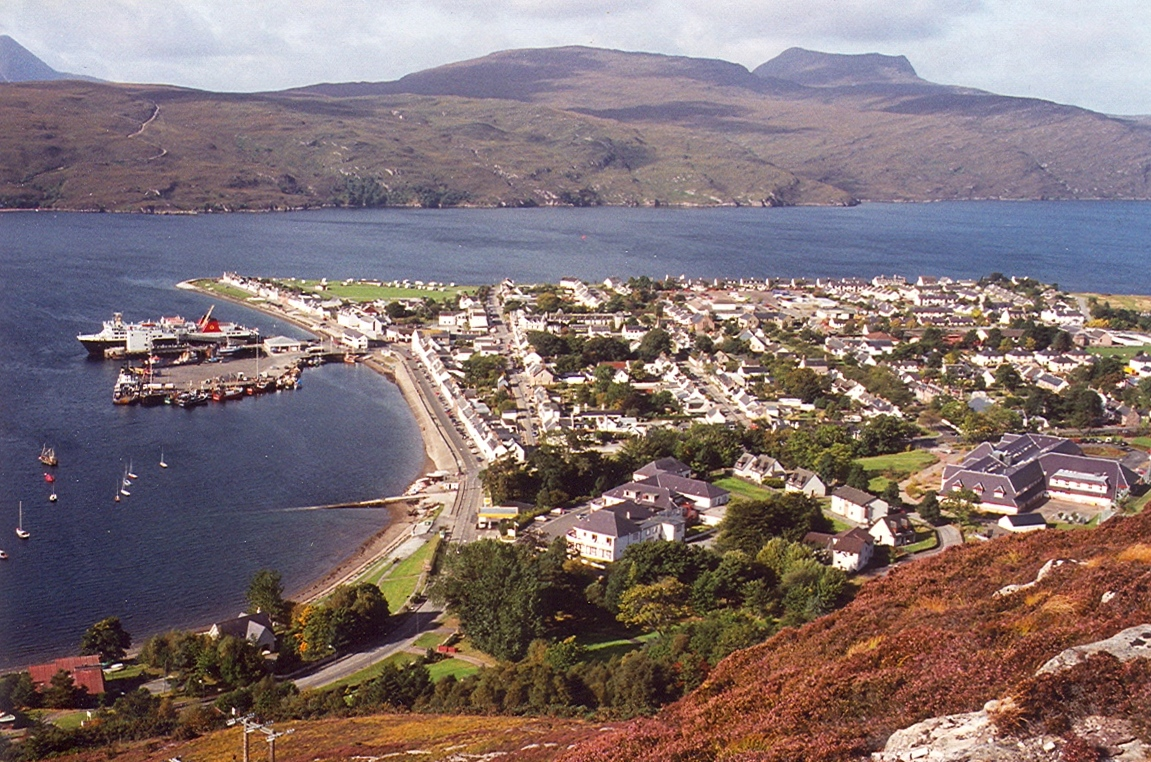 A view of the town of Ullapool, taken from the slope of Maol Calaisceig